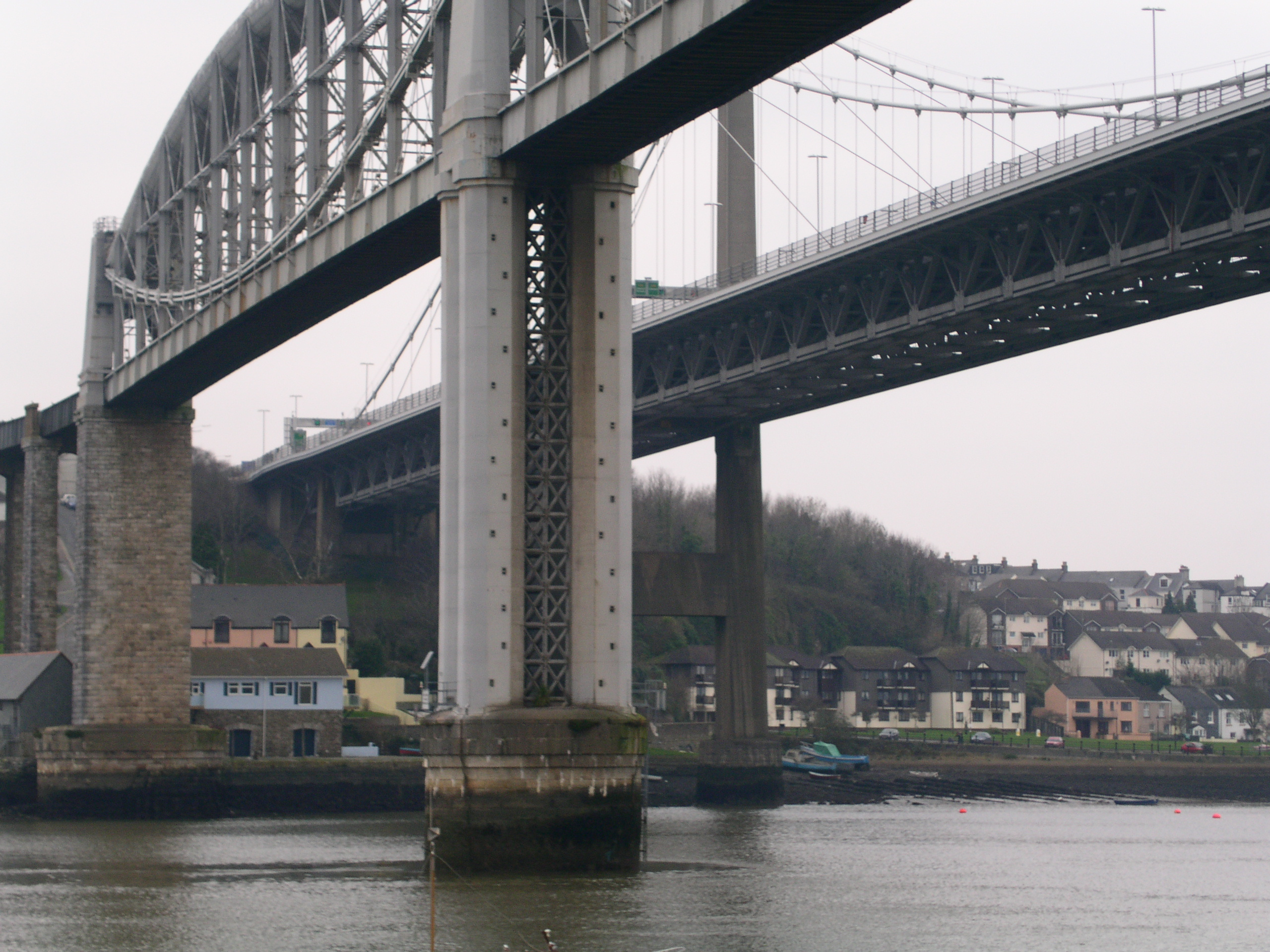 The central pier of the Royal Albert Bridge connecting Saltash, Cornwall and Plymouth, Devon viewed from the Plymouth slip of the former Saltash ferry on the Plymouth (since replaced by the Tamar Bridge)